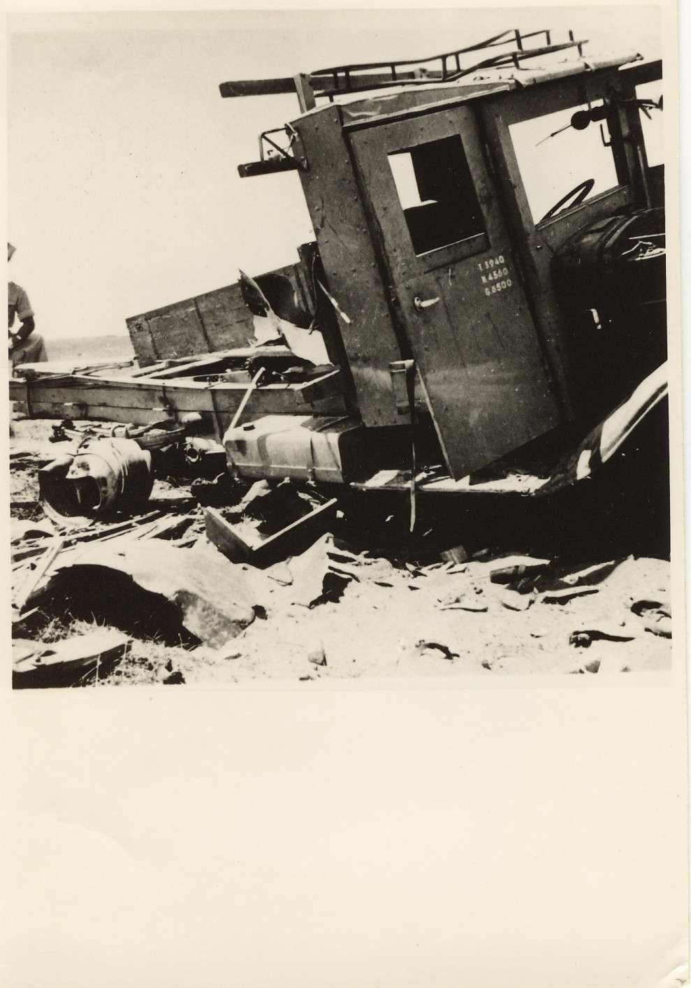 Settlements in Israel